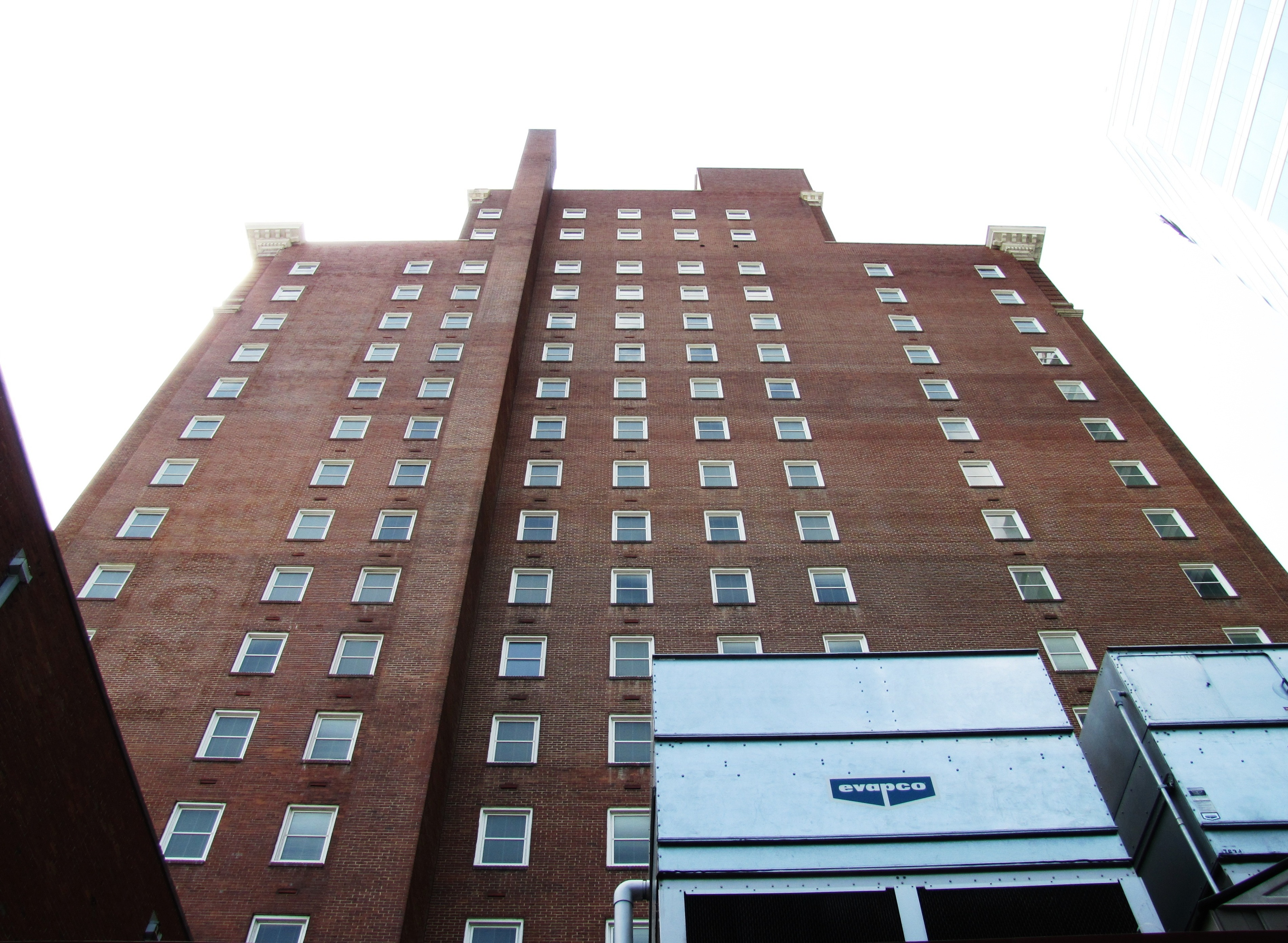 The eastern facade of the Andrew Johnson Building in Knoxville, Tennessee, USA.